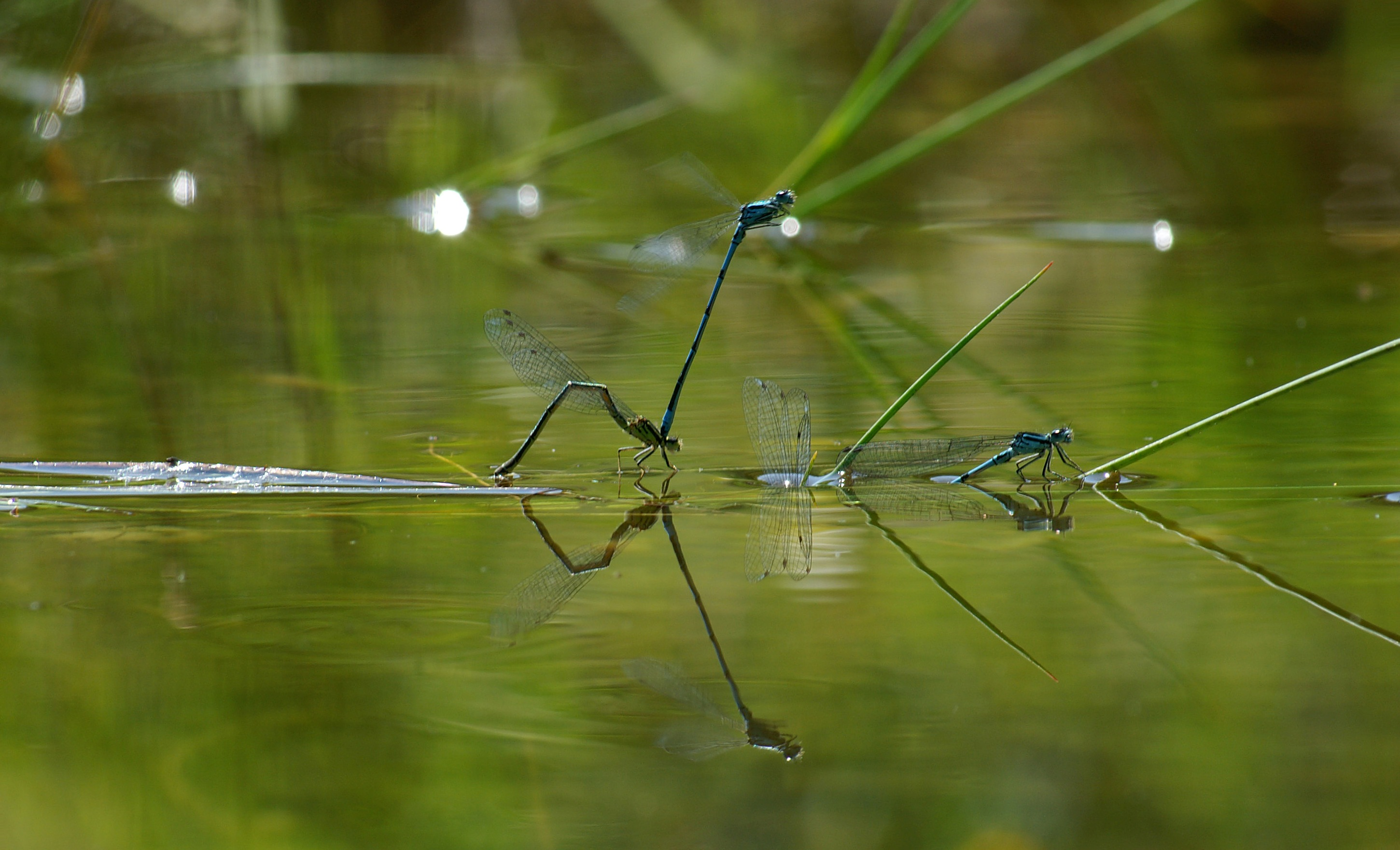 Azure Damselfly laying eggs